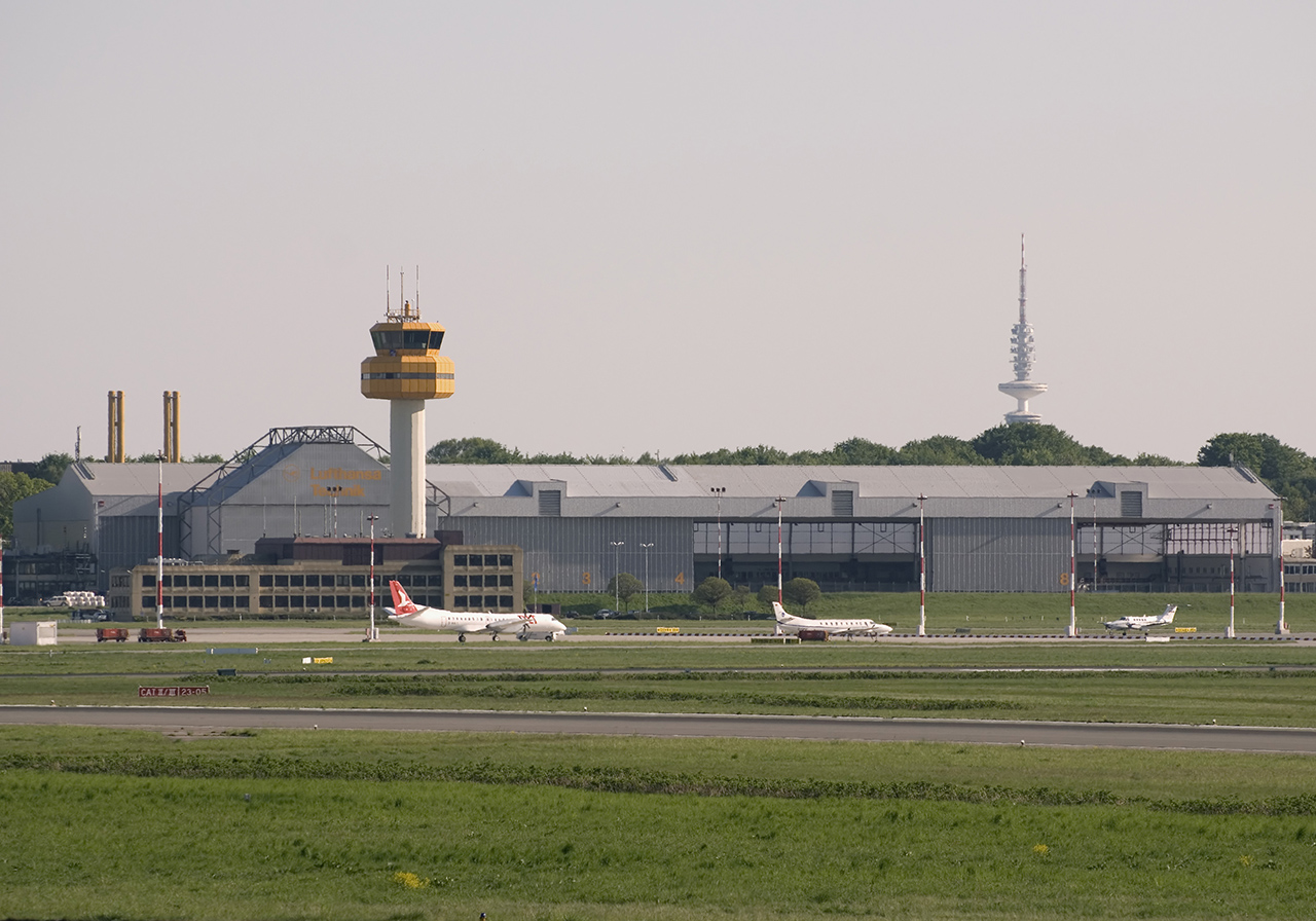 Facility of Lufthansa Technik at Hamburg Airport in June 2008.